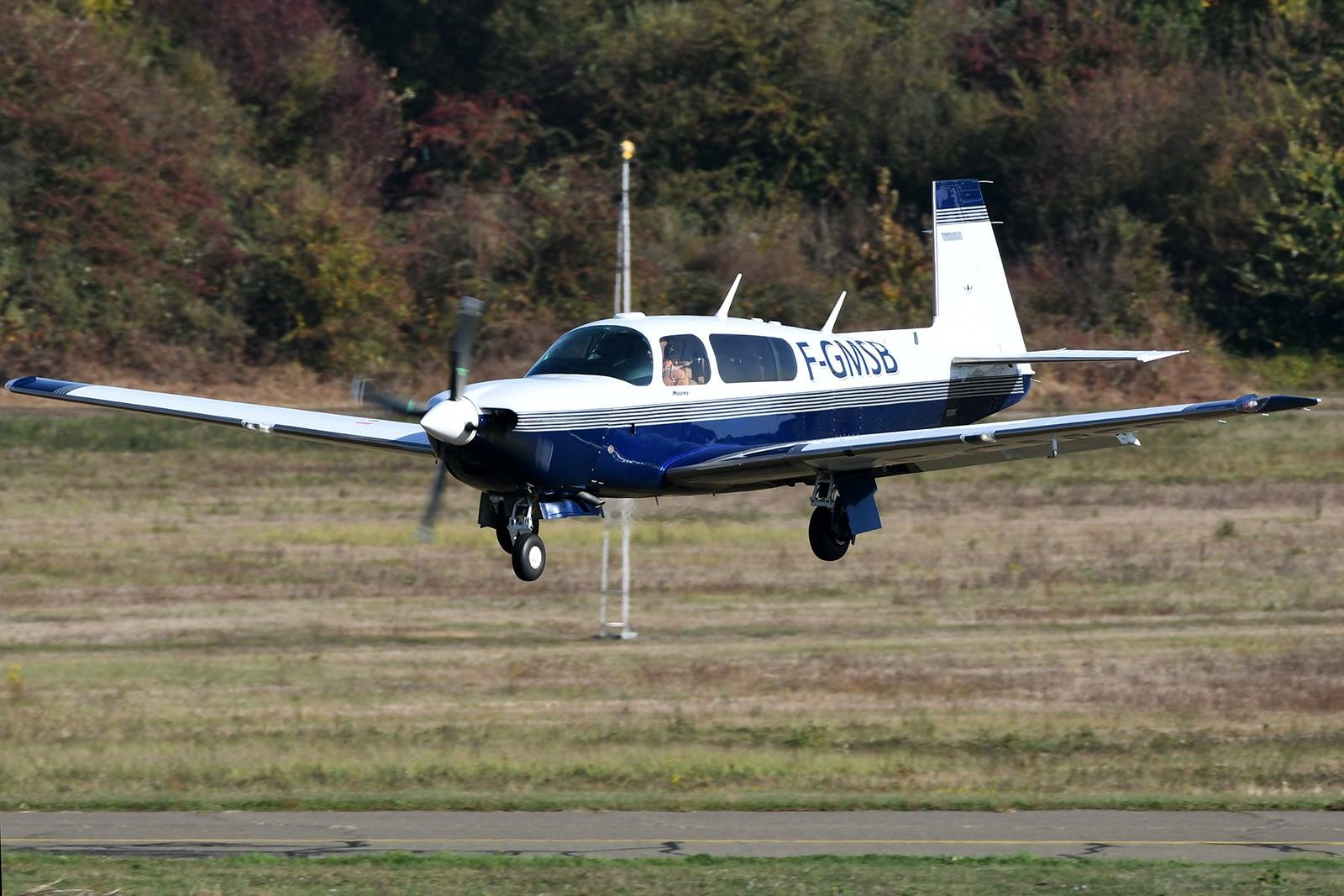 Mooney M20M Bravo landing in Toussus le Noble LFPN